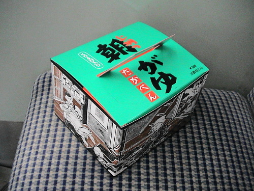 "Joshu no asagatu" (Takasaki Station)